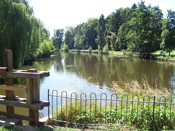 The Lake, Brueton Park, Solihull.